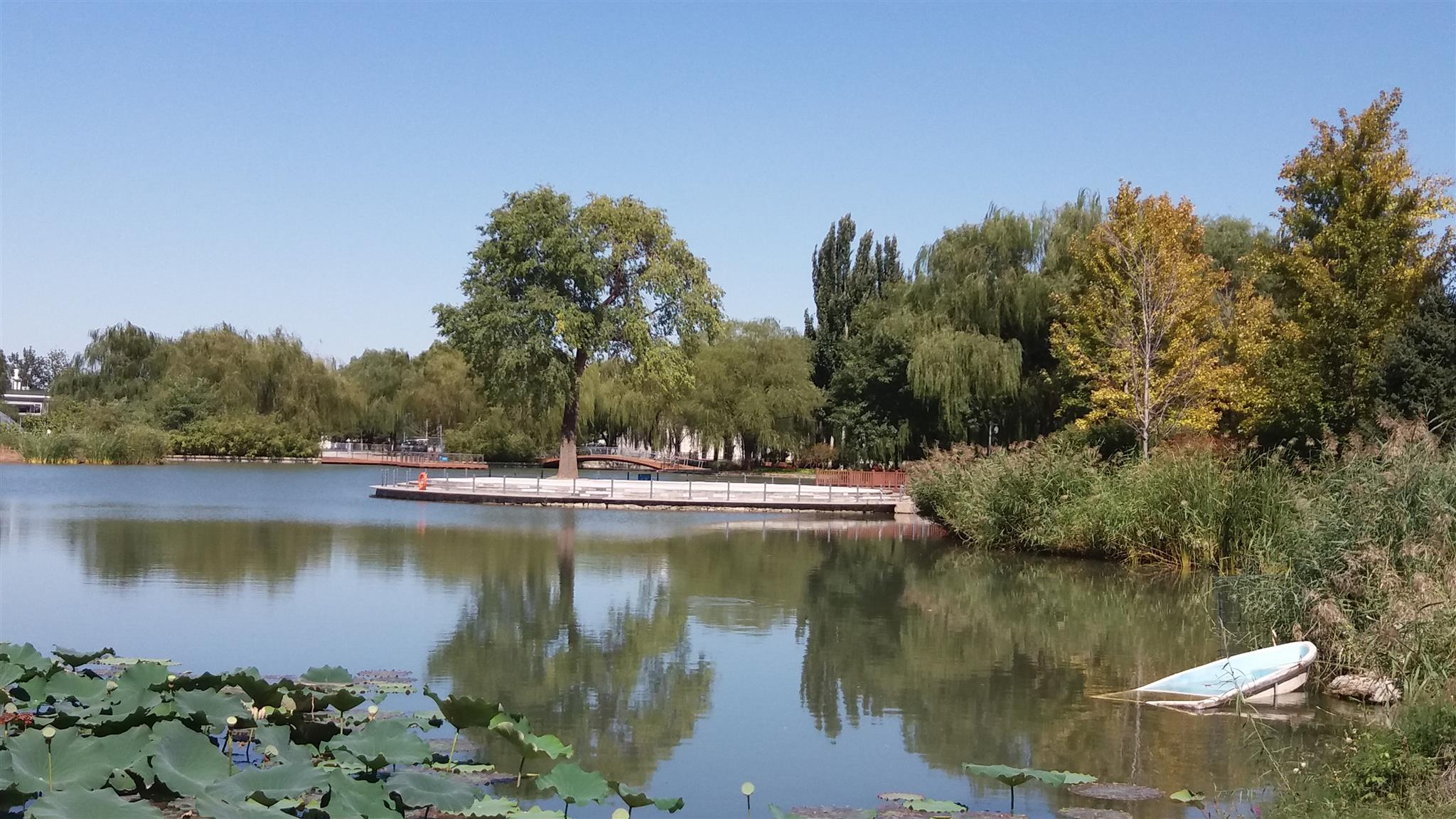 Haidian Park, Beijing